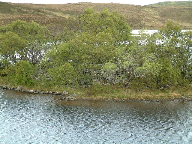 Grianan Island in Lochan Hakel. A tiny island in a lochan surrounded by ancient carved stones and rocks